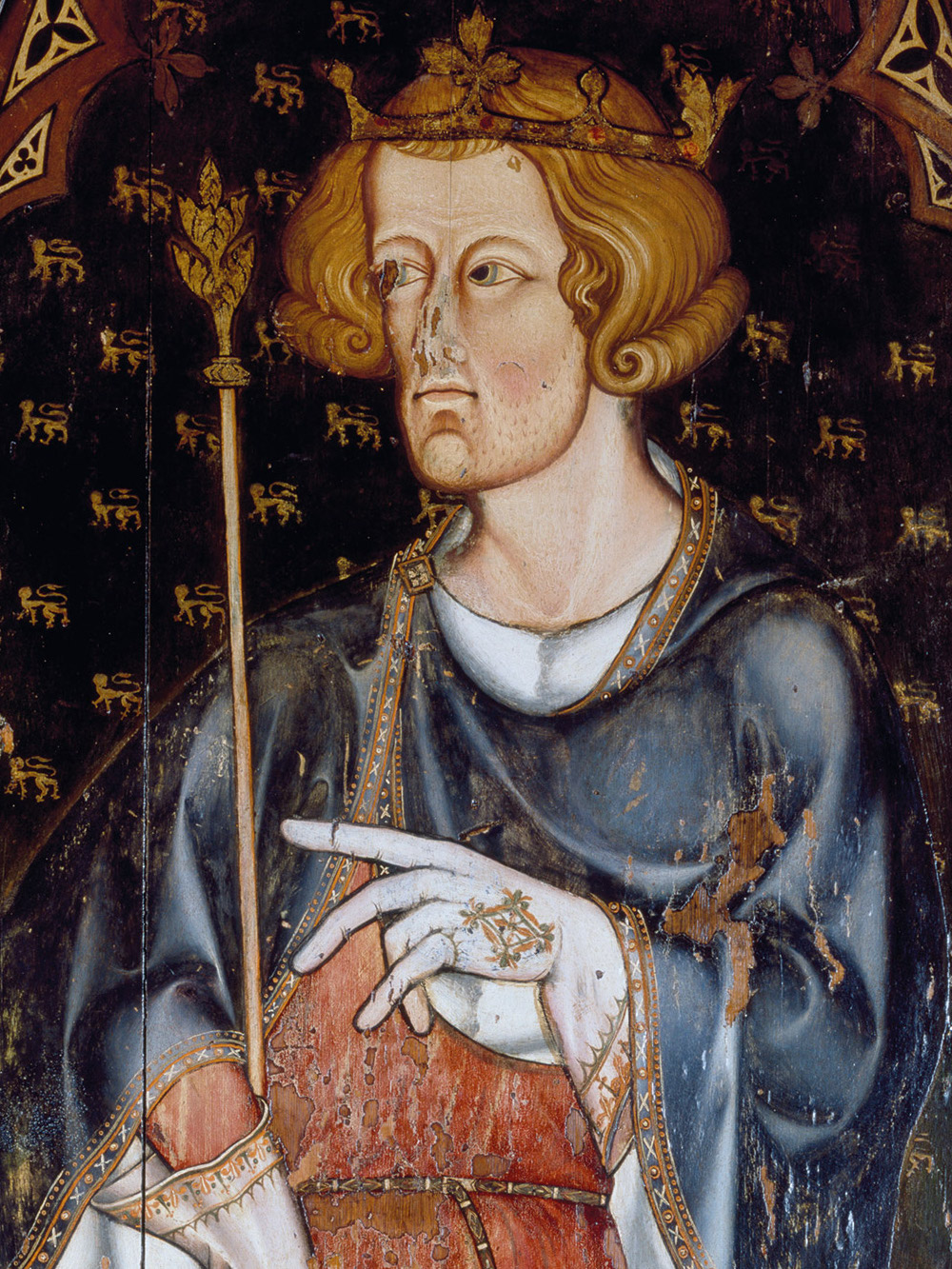 Erected at Westminster Abbey sometime during reign of Edward I, thought to be an image of the King.